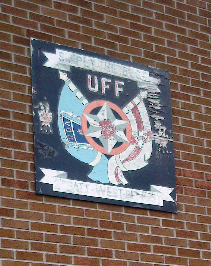 UFF D Company plaque, showing allegiance of North Down UFF to the West Belfast Brigade, Bloomfield estate, Bangor